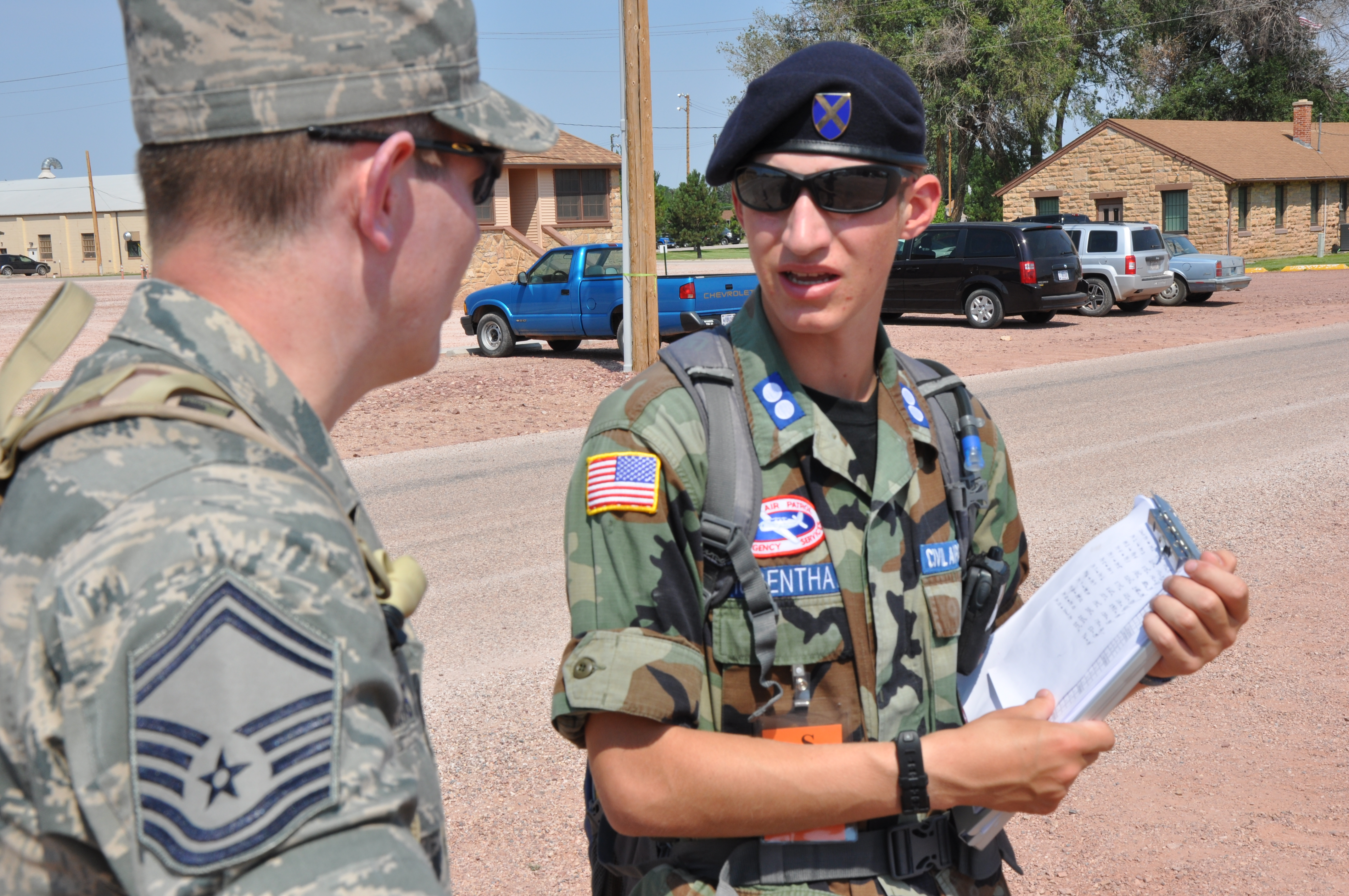 Civil Air Patrol Cadet 1st Lt. Isaac Hubenthal, 17, of Laramie, Wyo., with the Laramie Valley Composite Squadron, receives advice from U.S. Air Force Reserve Senior Master Sgt. Shane Williams, of Colorado Springs, Colo., assigned as a U.S. Air Force-Civil Air Patrol Liaison during the Wyoming Wing, Civil Air Patrol Encampment, Aug. 7, 2012, at Camp Guernsey Joint Training Center, Wyo. The encampment is an opportunity for new CAP cadets to learn skills, while more experienced cadets serve as the encampment’s staff, under the supervision of adult CAP members.